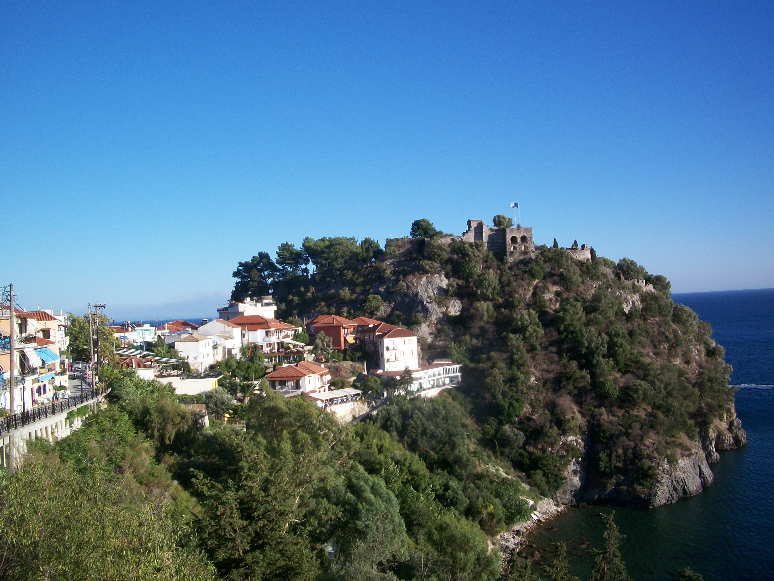 The castle of Parga